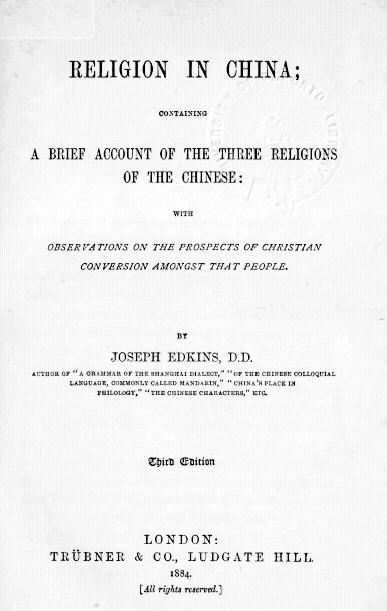 Title page of Religion in China